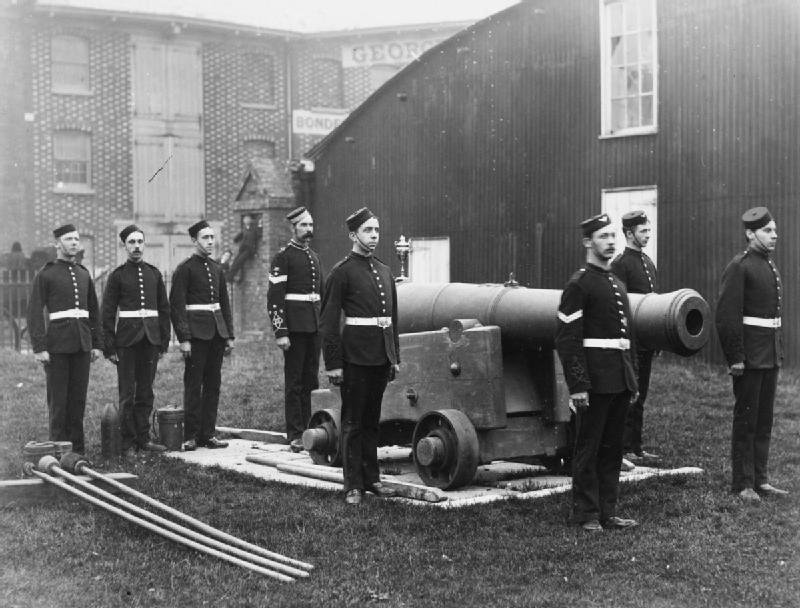 Symonds and Co Collection Volunteer Artillery with gun.